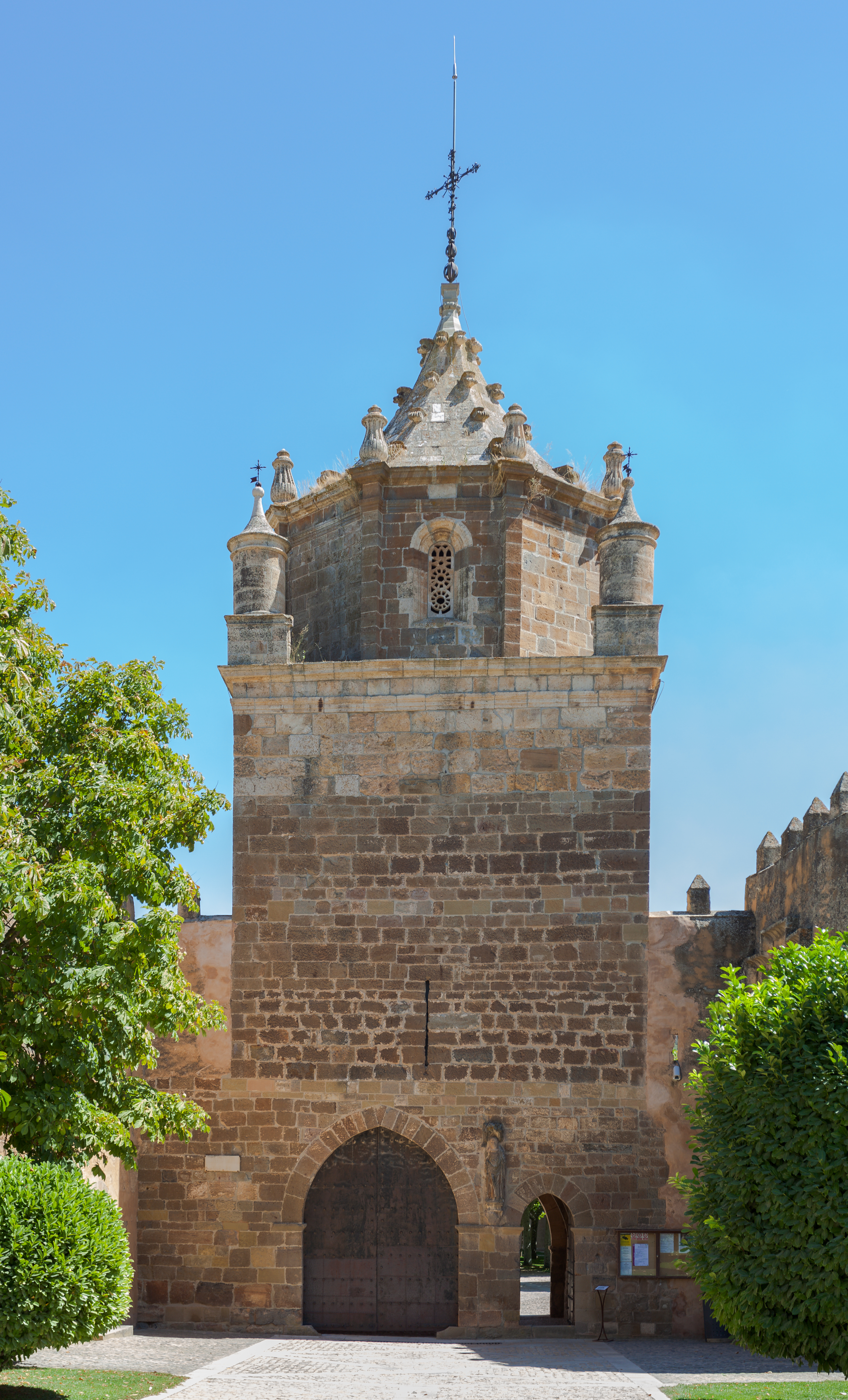 Monastery of Veruela, Vera de Moncayo, Spain